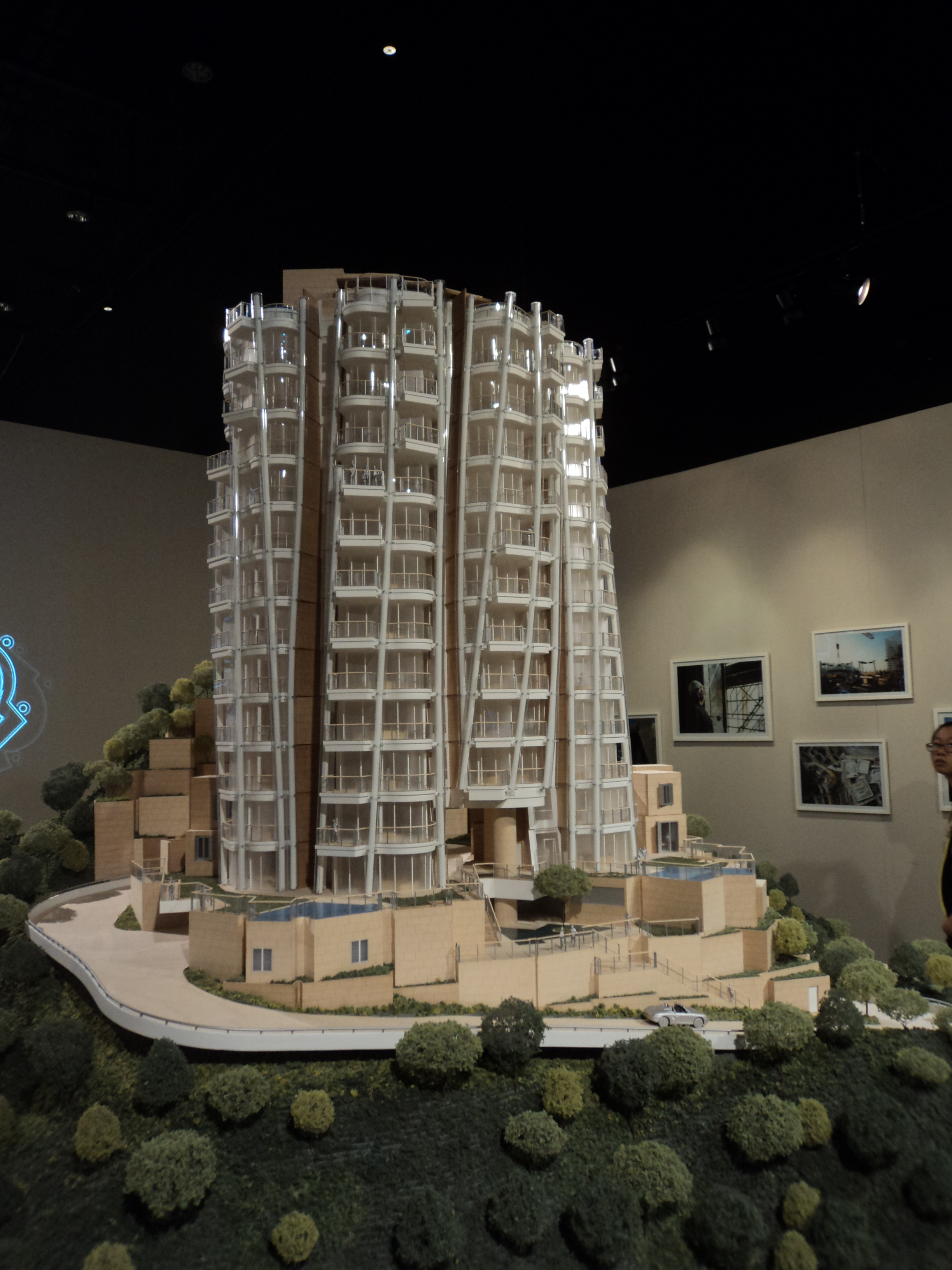 A model of Opus Hong Kong, a Frank Gehry designed building on 53 Stubbs Road on Hong Kong Island.